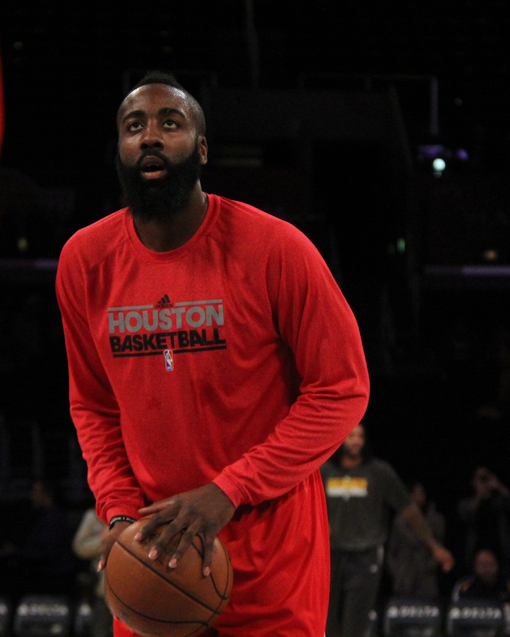 Professional bball player